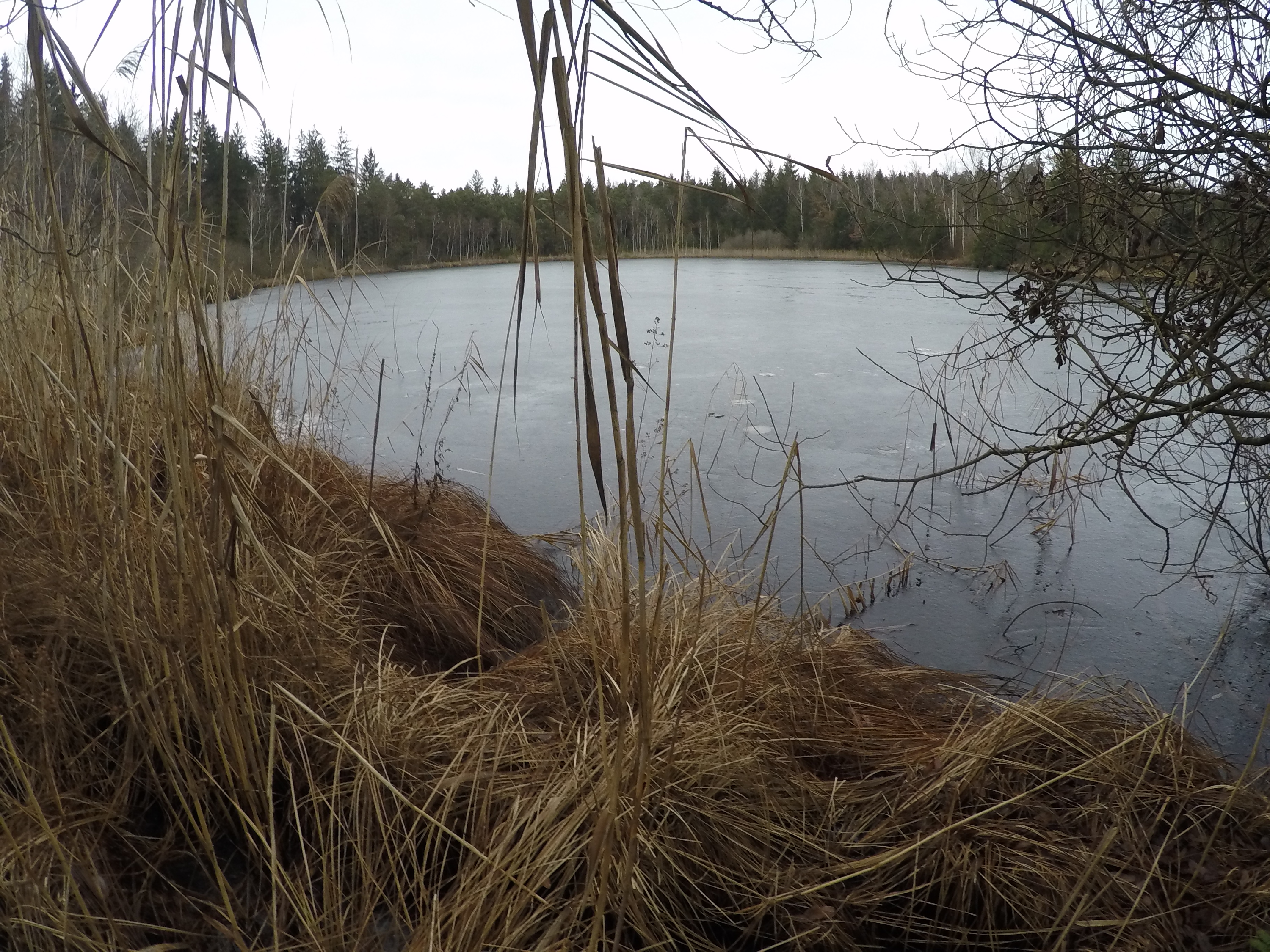 Kleiner Karpfsee, Bavaria